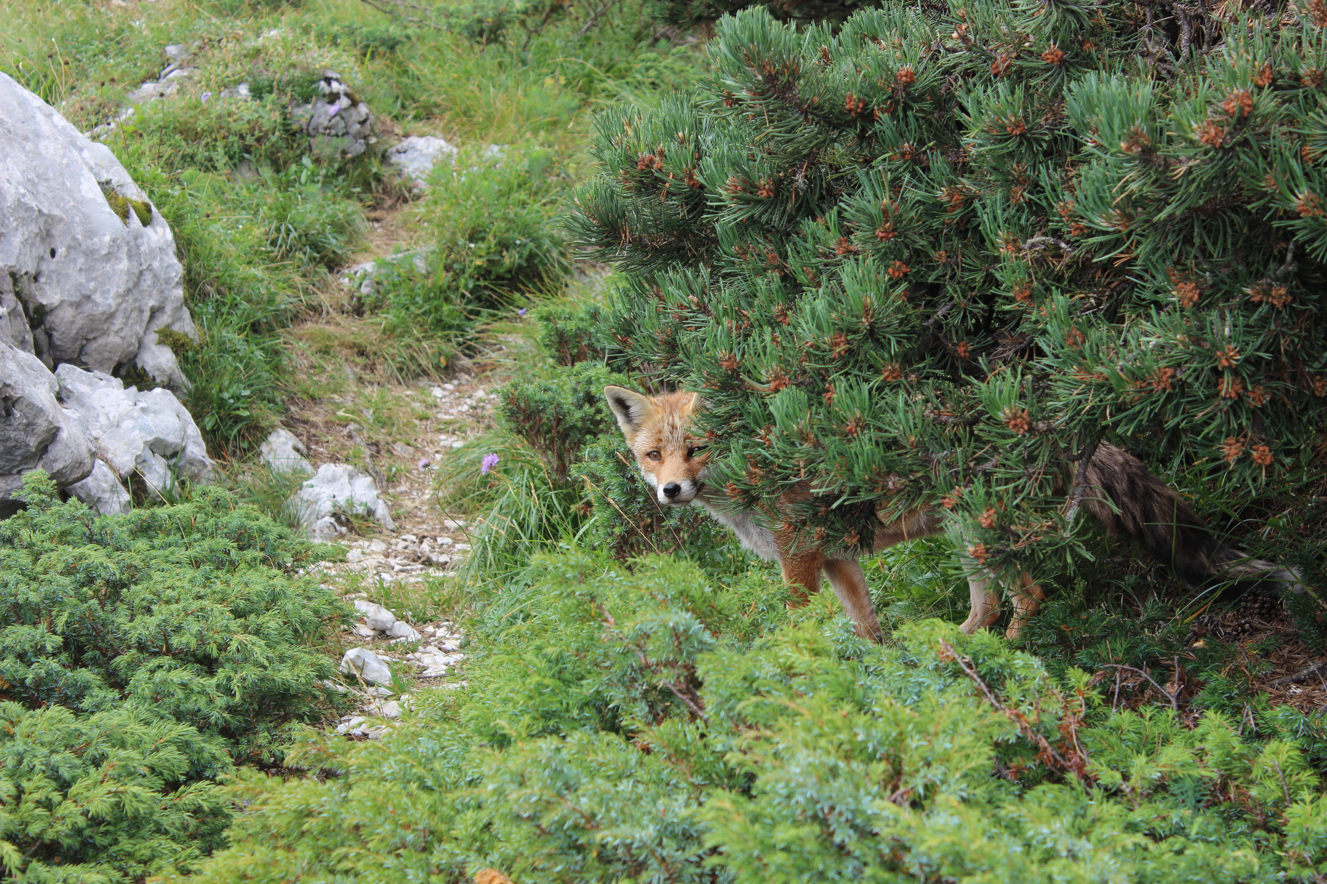 Fox in Chartreuse mountains (France)